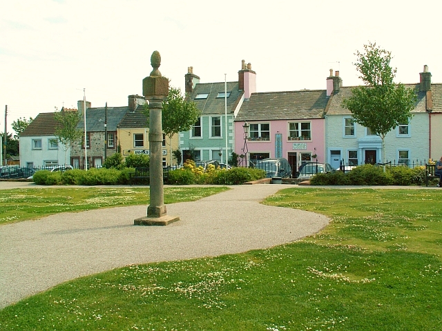 The old Merkat Cross Set in a small park in the middle of Main Street, this late 18th century market cross has been moved from its original position, which was probably outside the old court house . This view is to South Main Street - for a view to North Main Street .